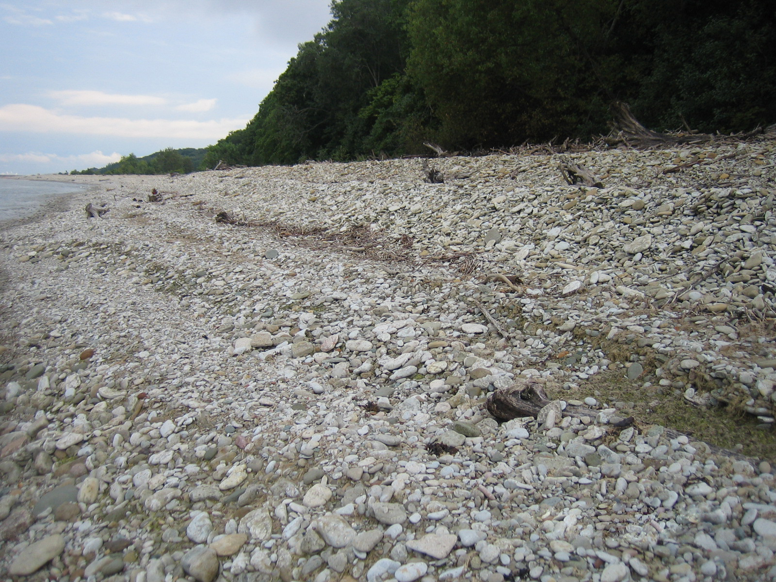 Finnish Gulf shore near Toila